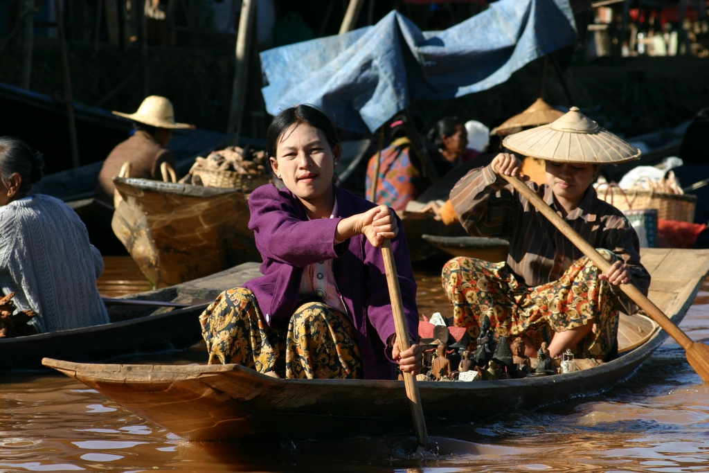 Market day commerce at Lake Inle, Myanmar.